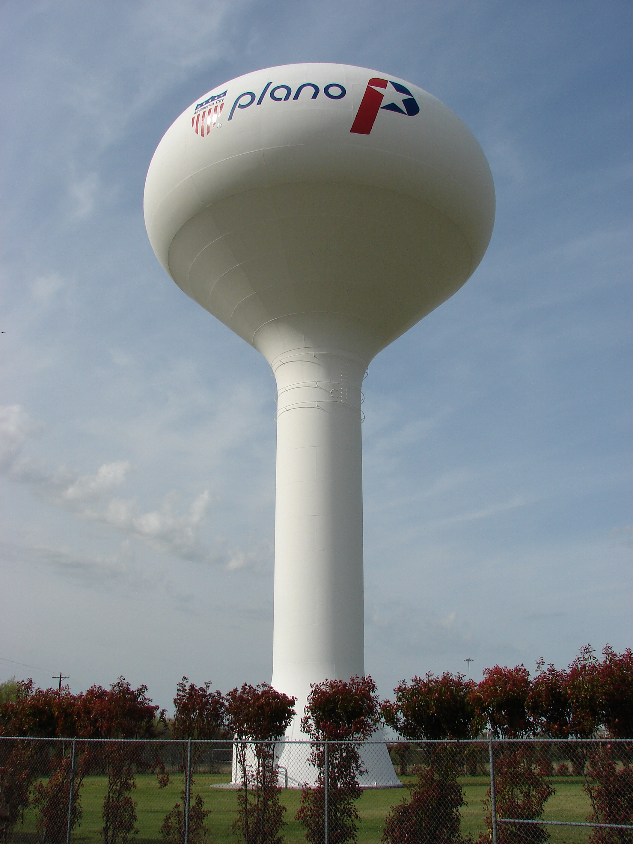 Water tower in Plano, Texas.